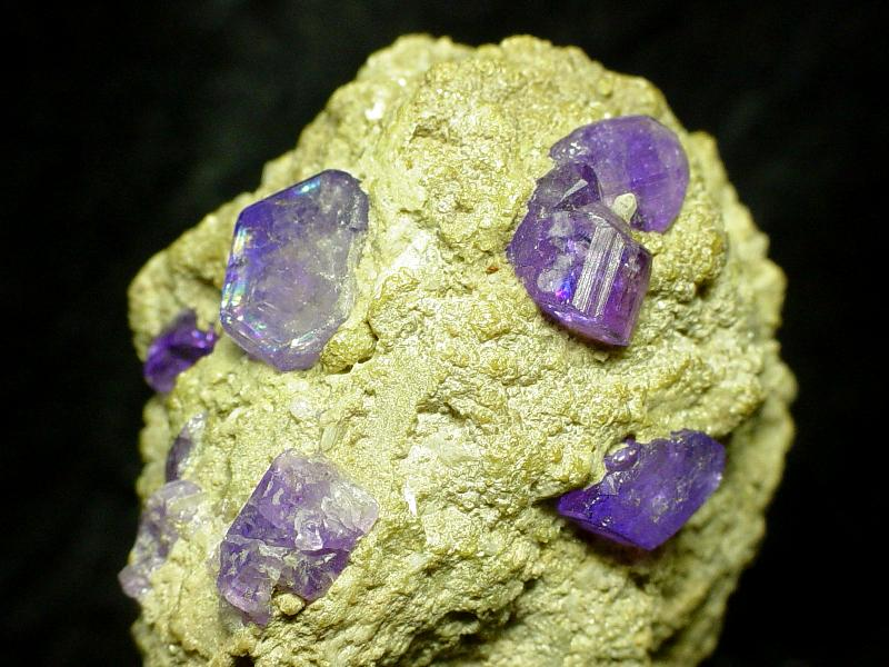 Apatite-(CaF) Locality: Pulsifer Quarry & Dionne extension, Mt. Apatite District, Auburn, Androscoggin County, Maine, USA (Locality at ) A STUNNING specimen with half a dozen major gem crystals of this most-famous and most-desirable of all US apatite localities. The major crystal, which is so gemmy and transparent you can see right through to the matrix, is 1.5 x 0.9 x 0.8 cm. There are 4 other crystals of equal pizazz and only slightly smaller size. The COLOR is what made these these apatites famous. 5.5 x 4.75 x 3 cm